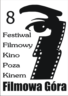 logo Film Mountain